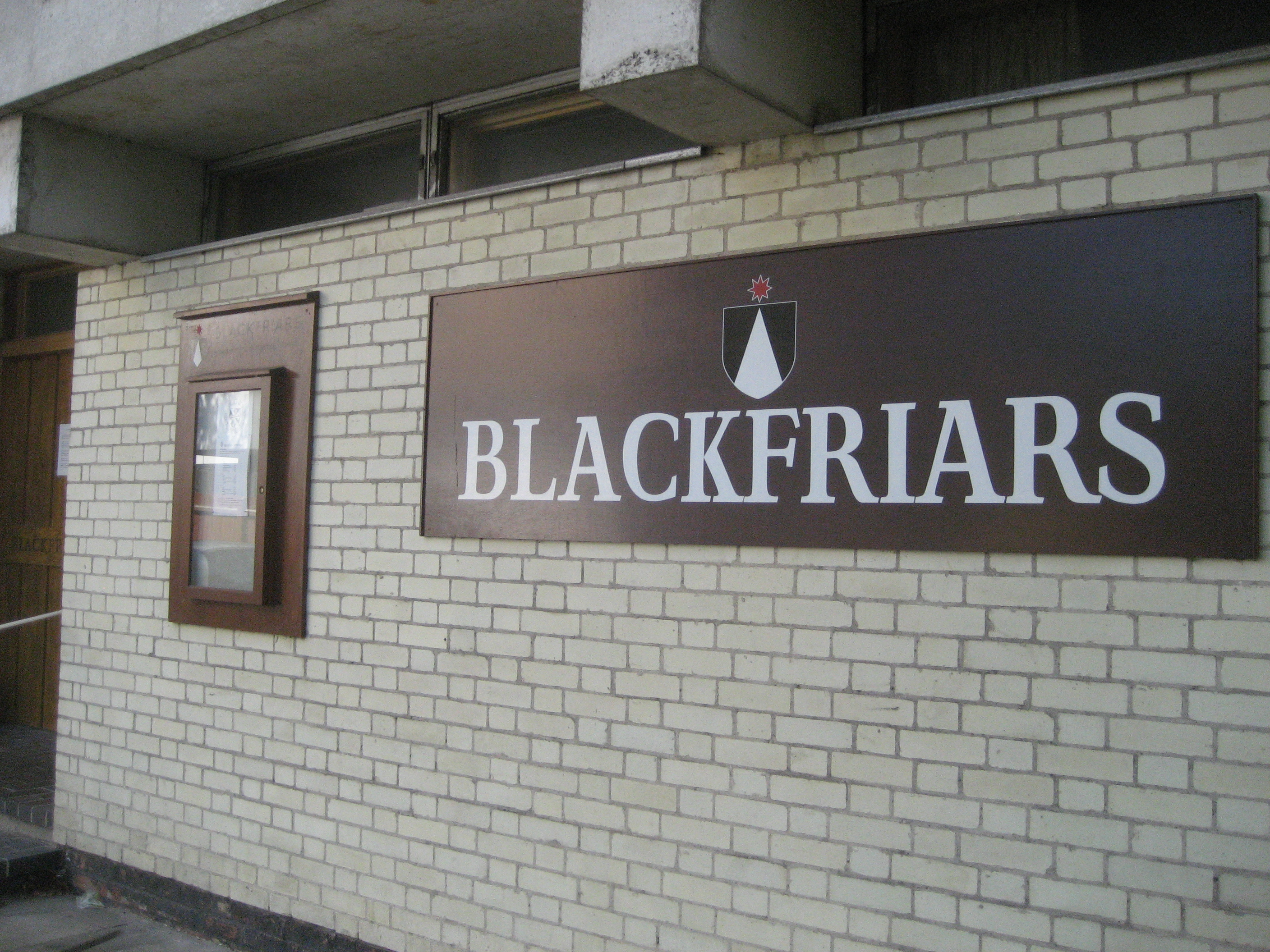 Black friars church, Cambridge, England (UK)